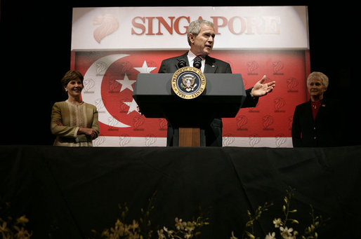 President George W. Bush addresses U.S. embassy staff and families during an embassy greeting in Singapore on Thursday, November 16, 2006. Mrs. Laura Bush is pictured on his left, and the U.S. Ambassador to Singapore Patricia Herbold on his right. White House photo by Eric Draper.